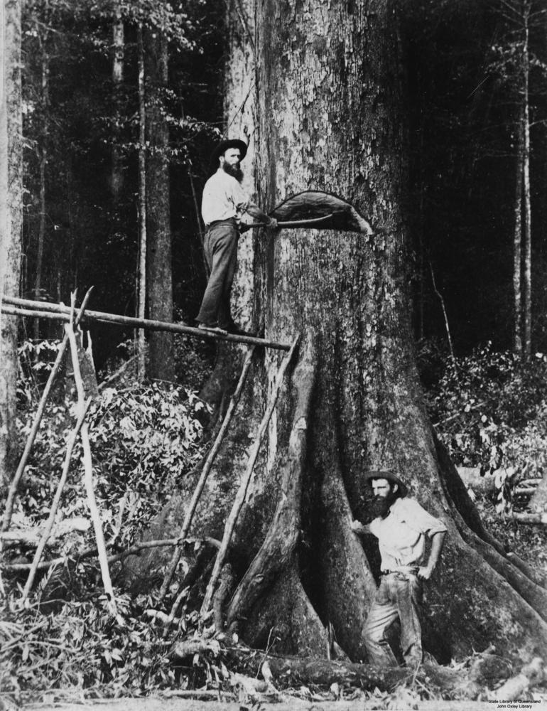 Two timber workers felling a tree on the Atherton Tableland, 1890-1900 Timber-getters fell a large tree. One man is standing on scaffolding and wielding an axe. They are working in the rain forest on the Atherton Tableland, North Queensland.